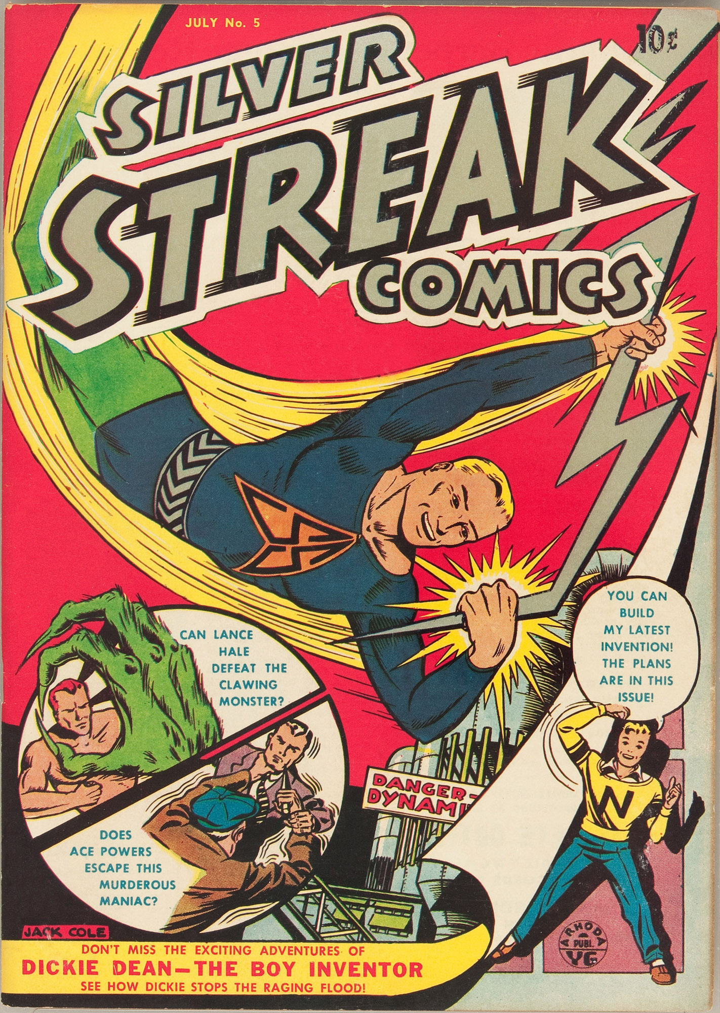 Cover of Silver Streak Comics #5 (July of 1940) Lev Gleason Publications. (defunct co.)